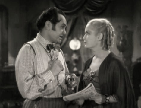 Edward G. Robinson and Miriam Hokins in Barbary Coast (1935) - trailer (cropped screenshot).